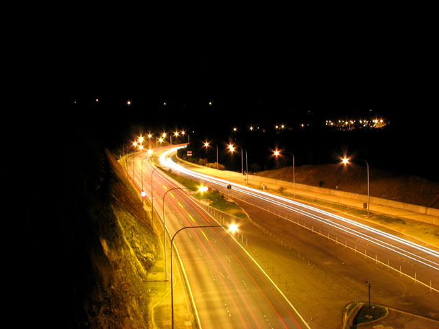 The Adelaide-Crafers Highway at night. The photo, facing south-east, was shot from the northern ridges near the eastern portal of the Heysen Tunnels.